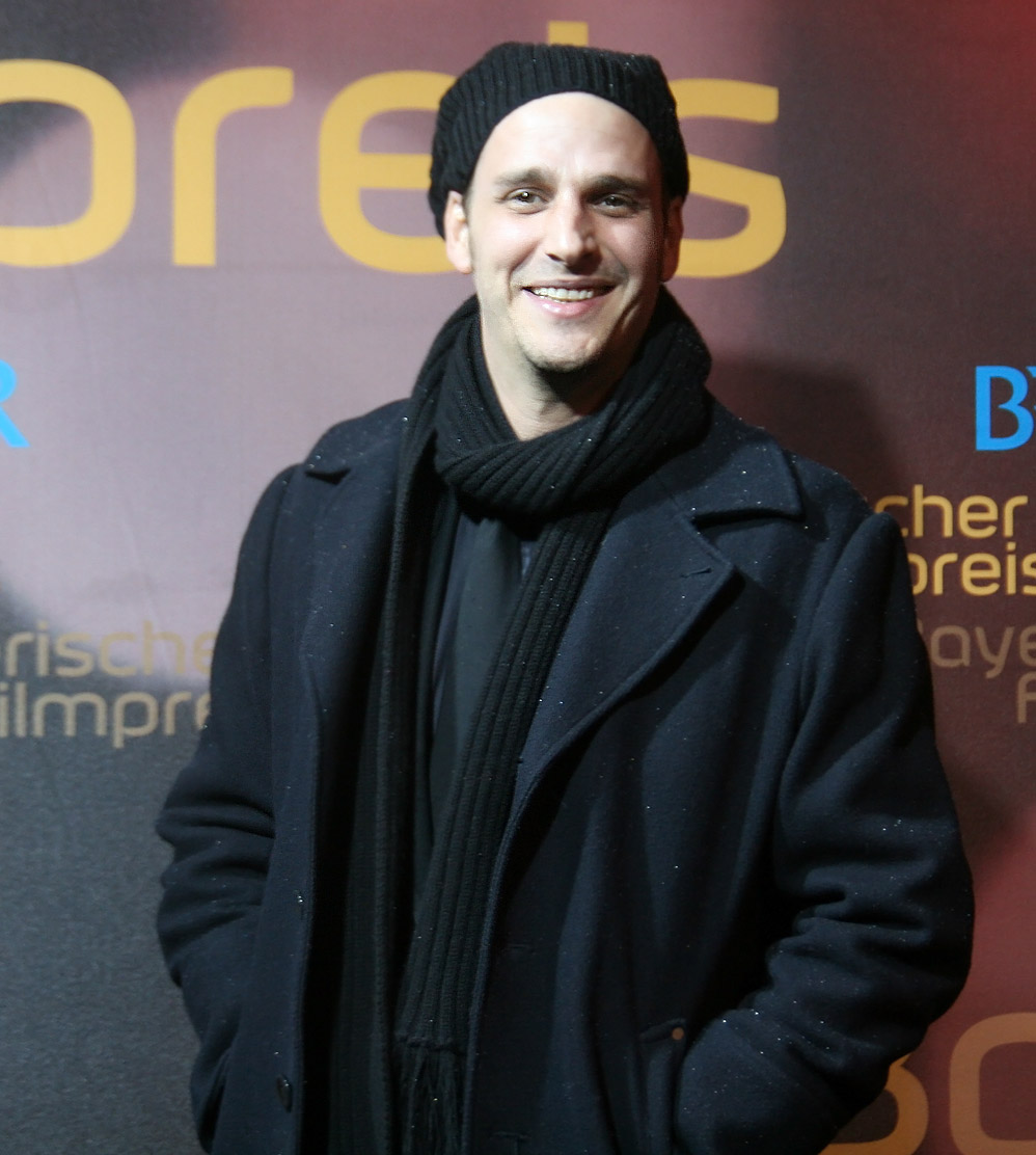 Max von Thun, Bavarian Film Awards 2012 at the Prinzregententheater in Munich.